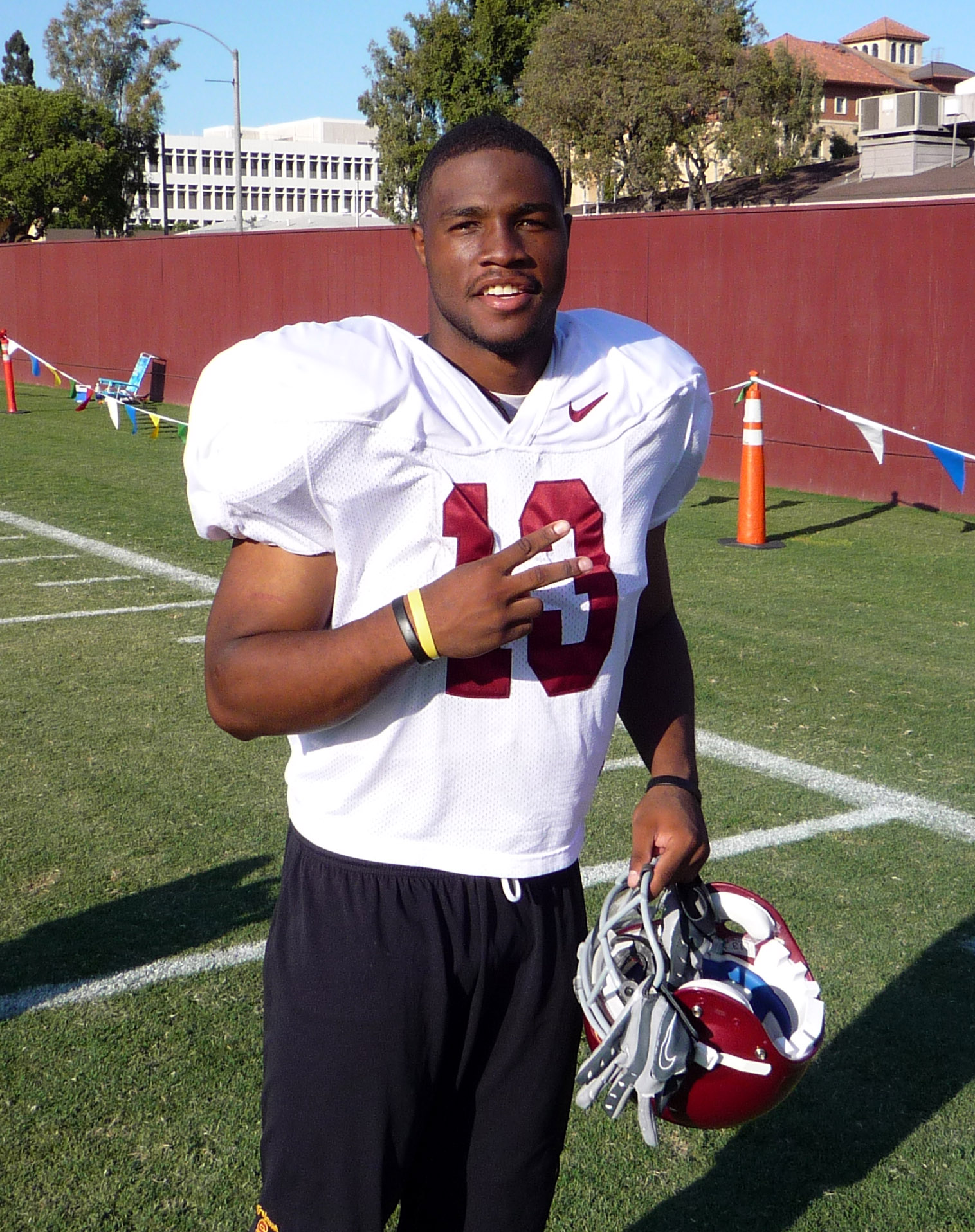 Running back Stafon Johnson, after a fall practice preceding the 2008 USC Trojans football season. He is making the traditional USC Trojan "V" for victory hand sign.